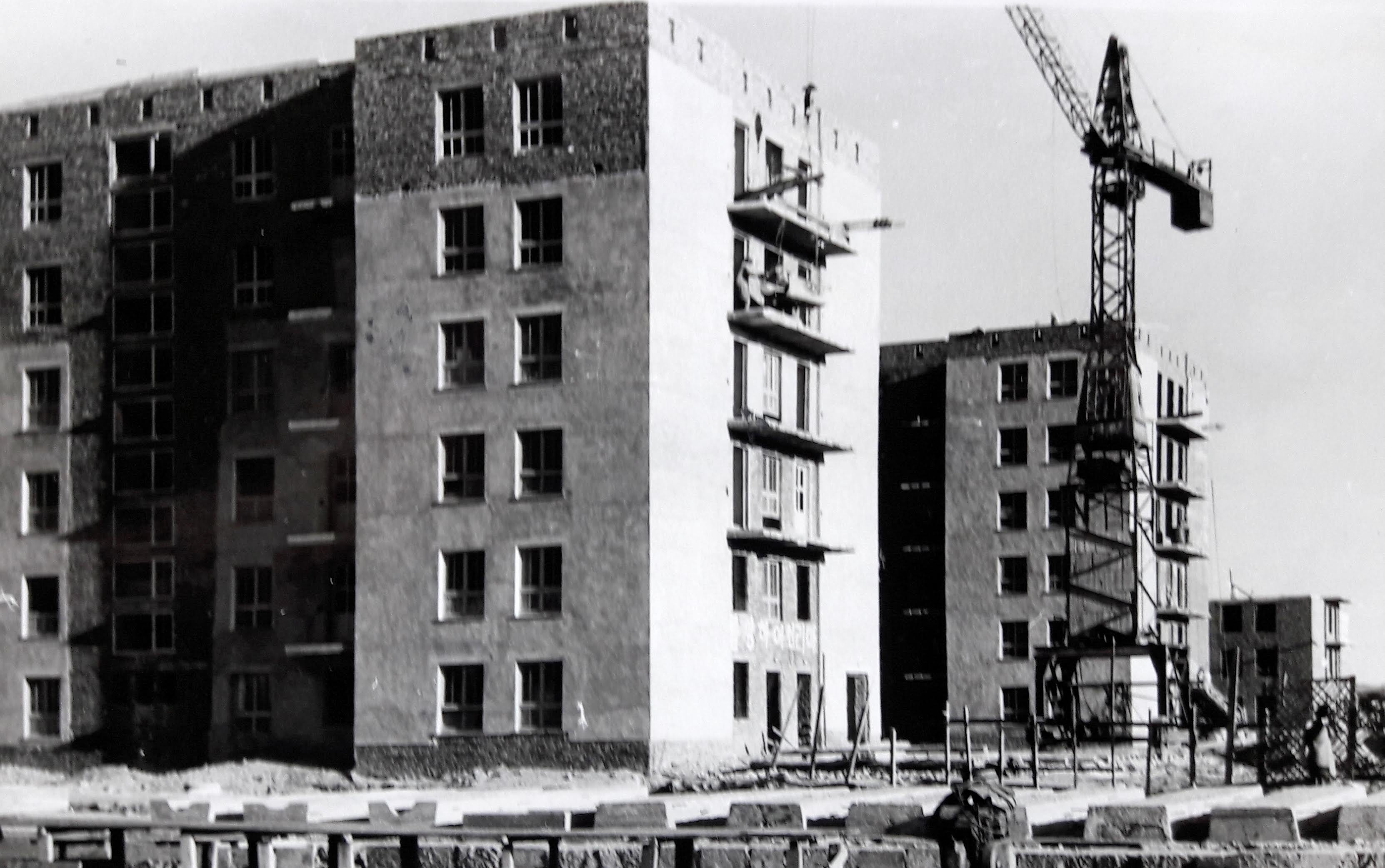 From 1955 to 1962, the East German government ran a large-scale programme to reconstruct the North Korean cities of Hamhung and Hungnam which had been severely damaged by US air raids during the Korean War (1950-53). Image shows one of these construction sites in Hamhung in 1958.